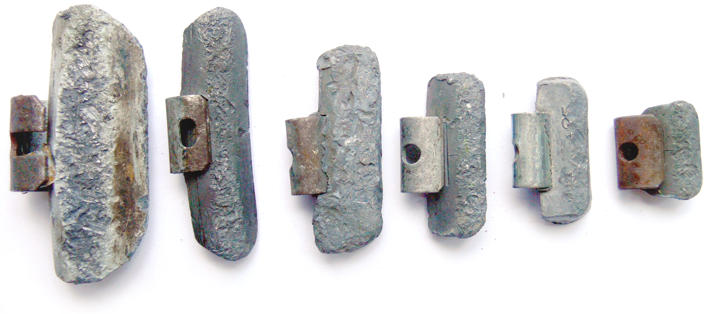 Lead